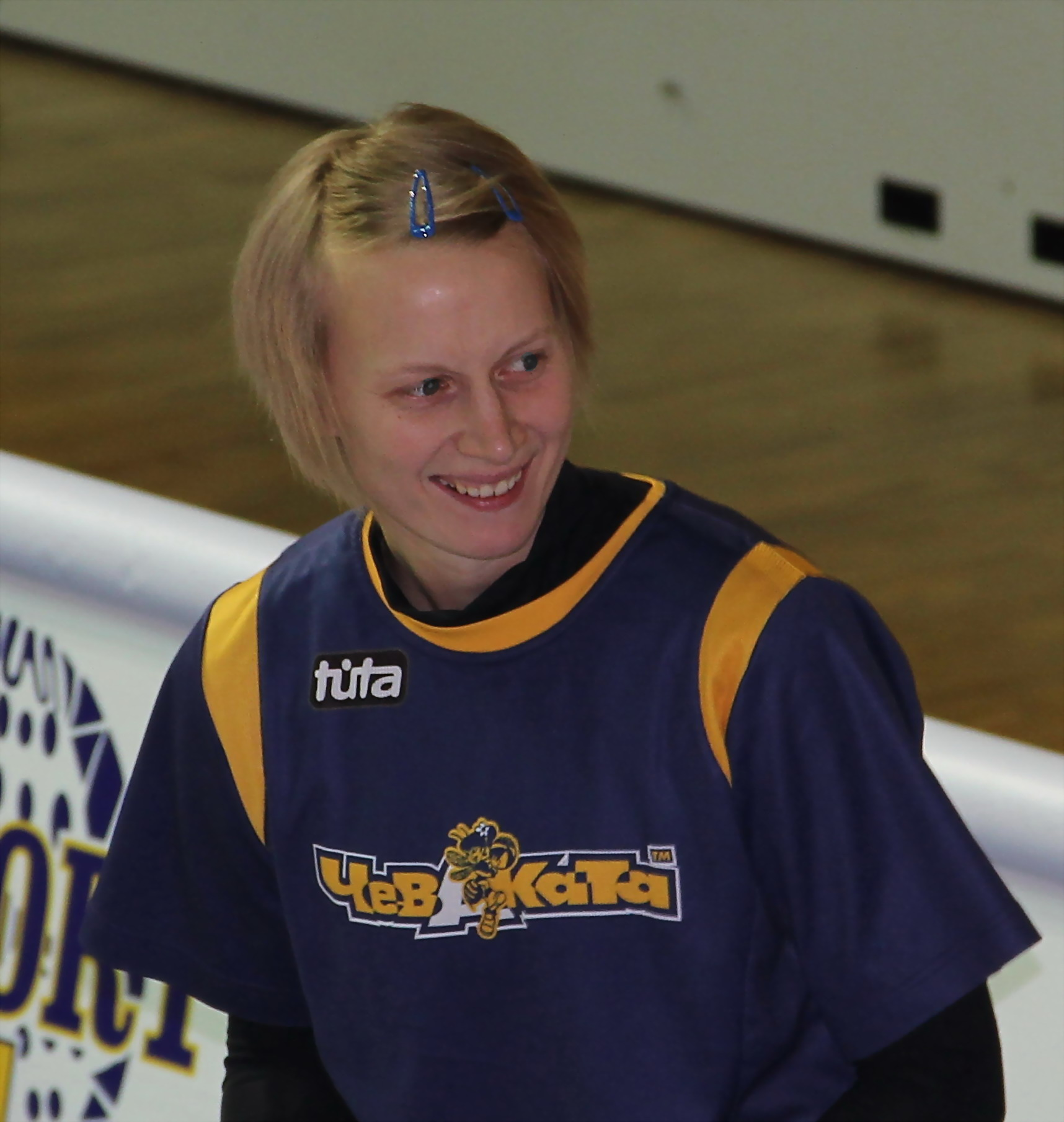 Russia, Vologda, Yelena Volkova in game «Vologda-Chevakata» vs «Nadezhda» (Orenburg)